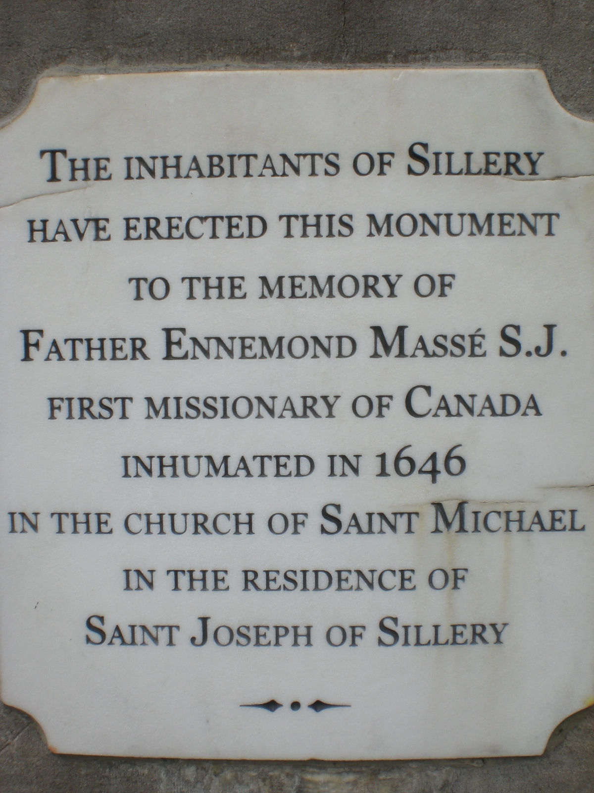 Translation of plaque at bottom of column in the remains of the old chapel in the area around Maison des Jésuites-de-Sillery